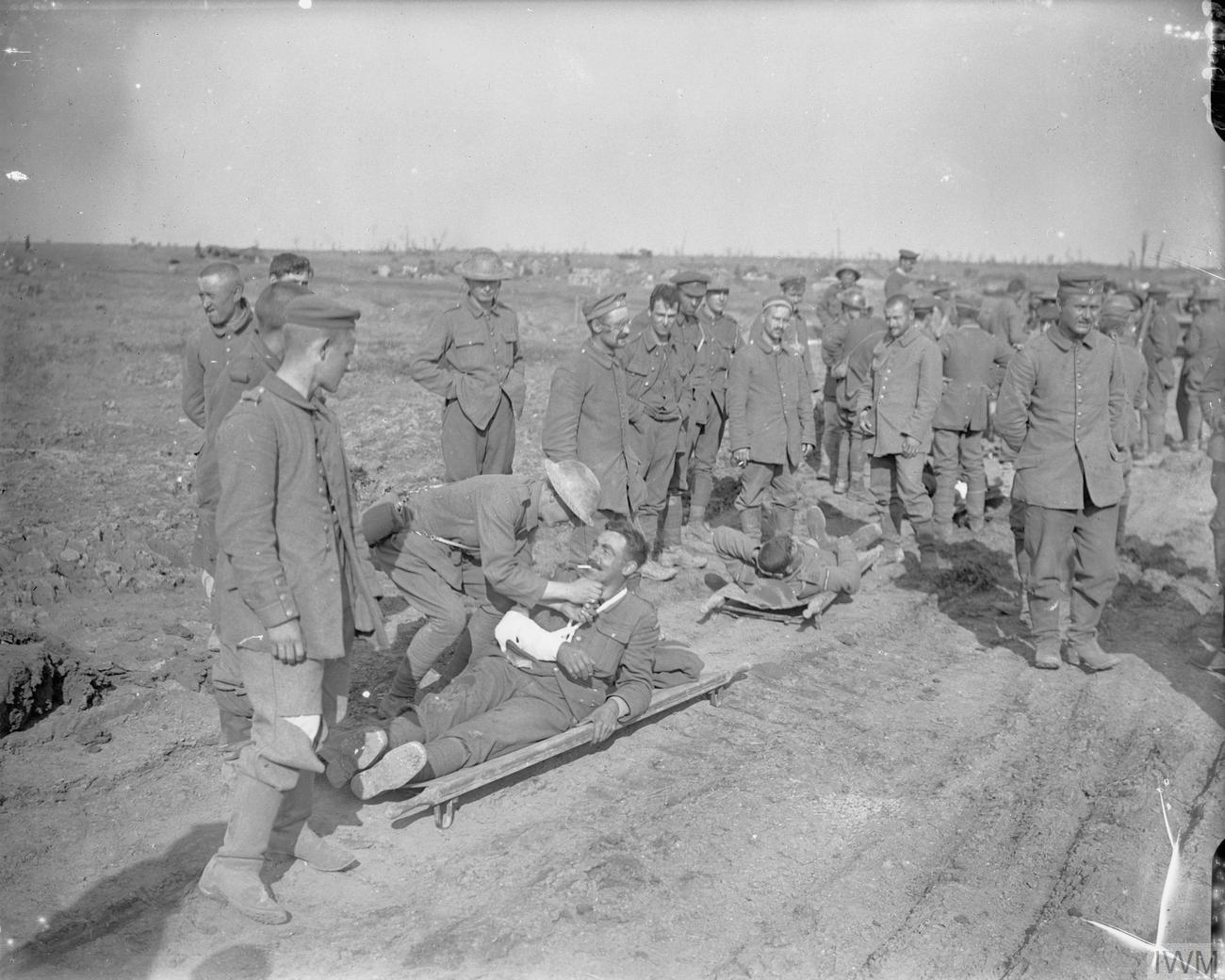 The Battle of Morval, Somme, France. A group of German prisoners and wounded Grenadier Guardsmen on stretchers are offered cigarettes.